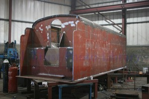 The tender tank almost complete